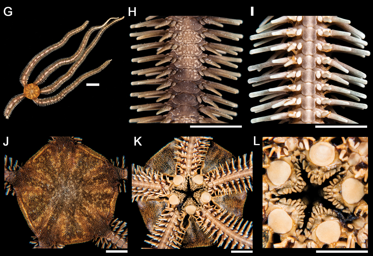 Ophiocomella alexandri (Lyman, 1860) (Ophiocoma alexandri Lyman, 1860). G : dorsal view H : dorsal view of the arm I : ventral view of the arm. Scale bar = 15 mm J : dorsal view of the disk K : ventral view of the disk. L : jaw. Scale bar = 5 mm.